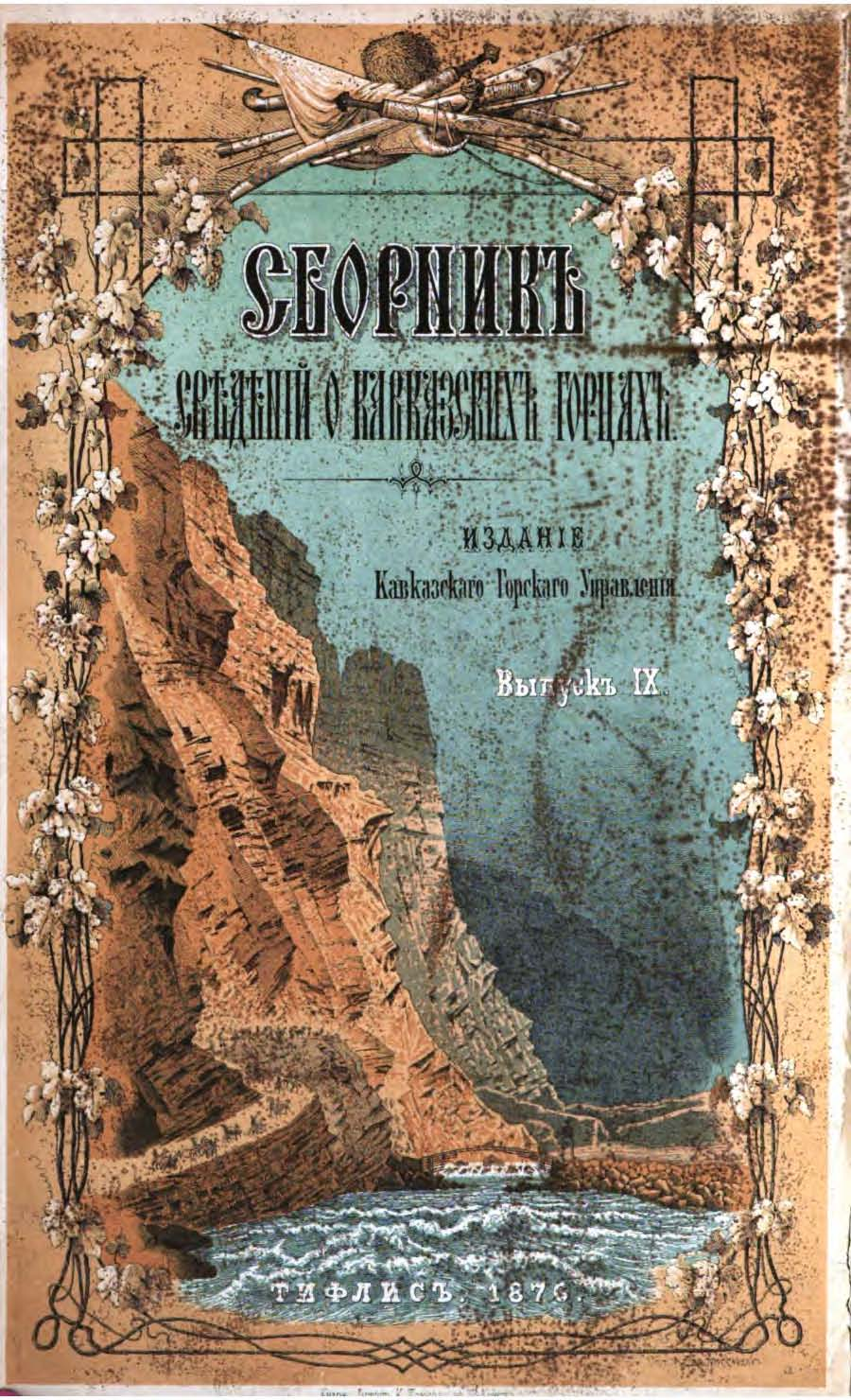 The front cover of "Sbornik svedeniy o kavkazskix gorcax", vol. 9, 1876.